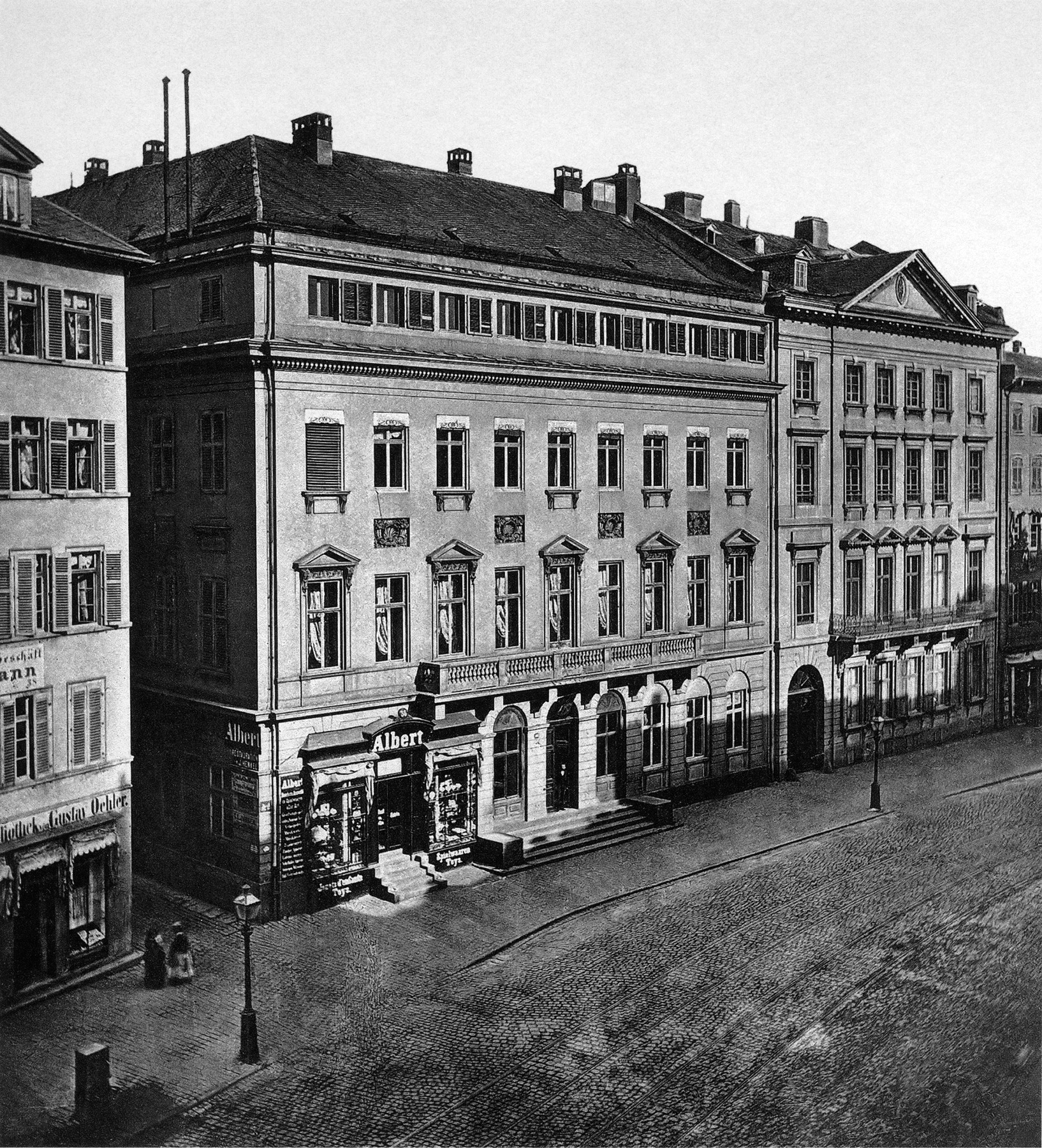 Frankfurt on the Main: Palais Mumm (to the left) and Palais Rothschild (to the right) at the Zeil